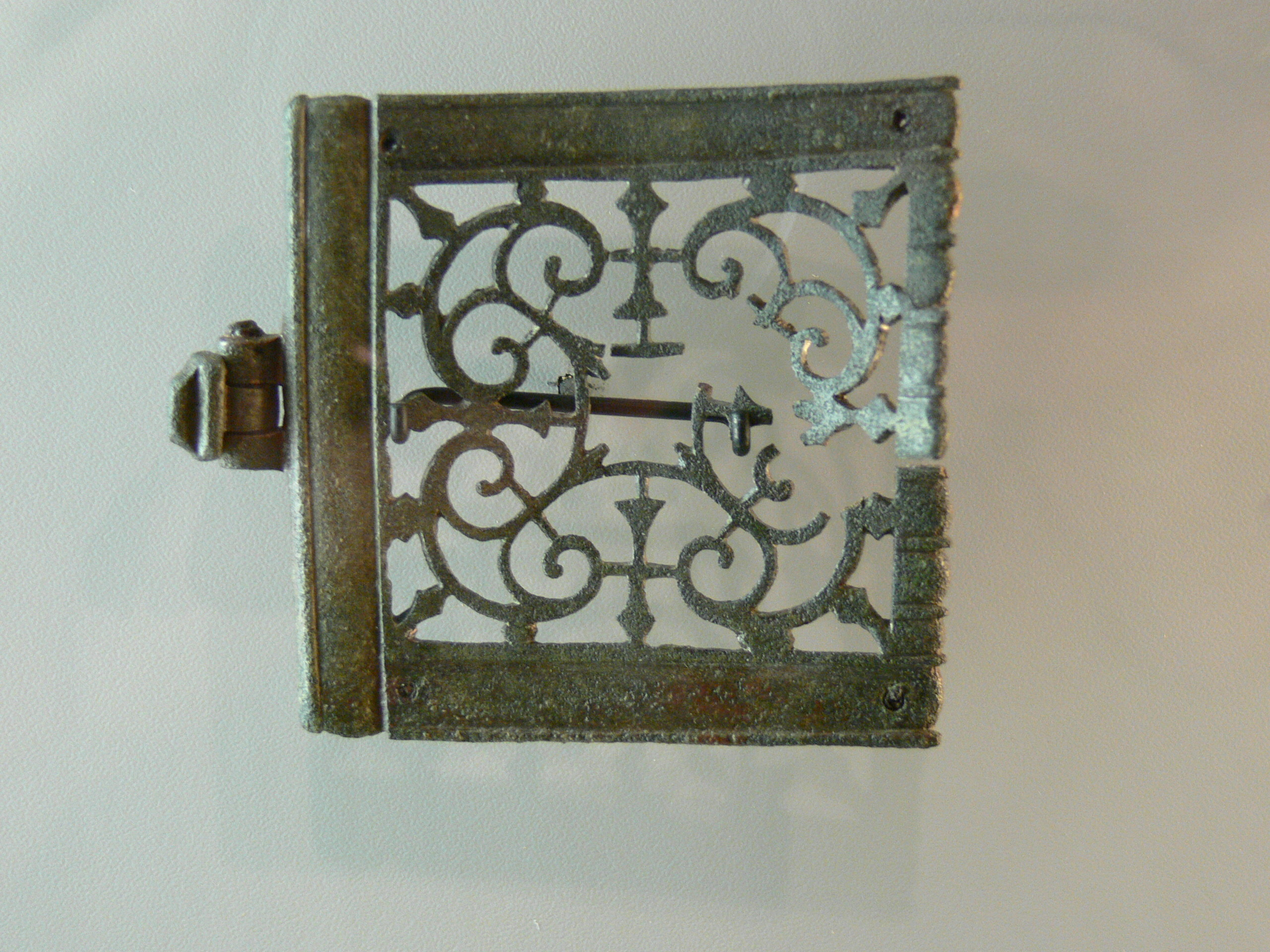 Museum Quintana - Roman department. Decoration of a cingulum ( military belt )